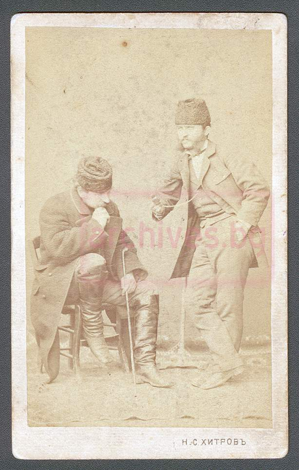 Toma Hitrov and Kosta Razmov